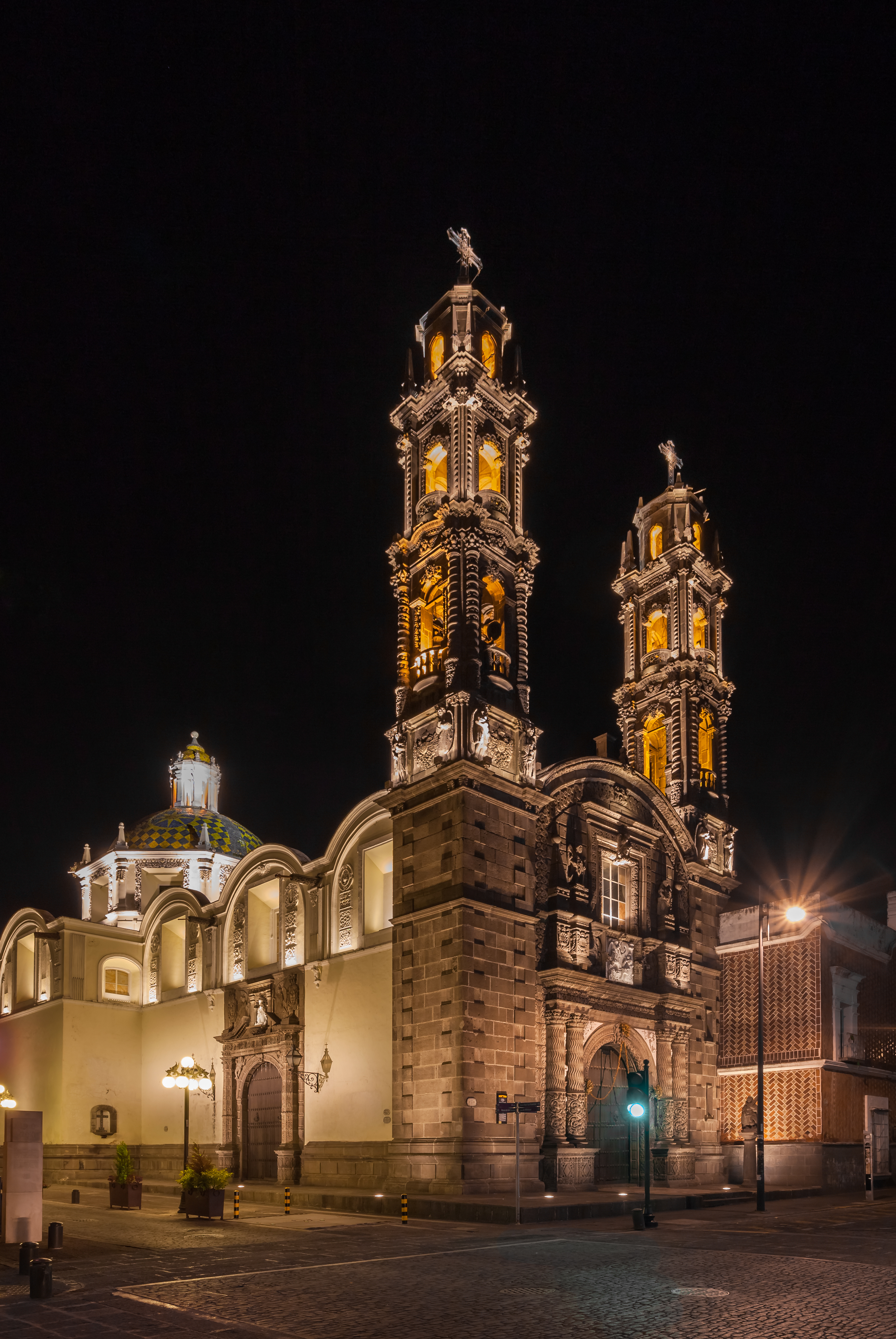 St Christobal Church, Puebla, Mexico